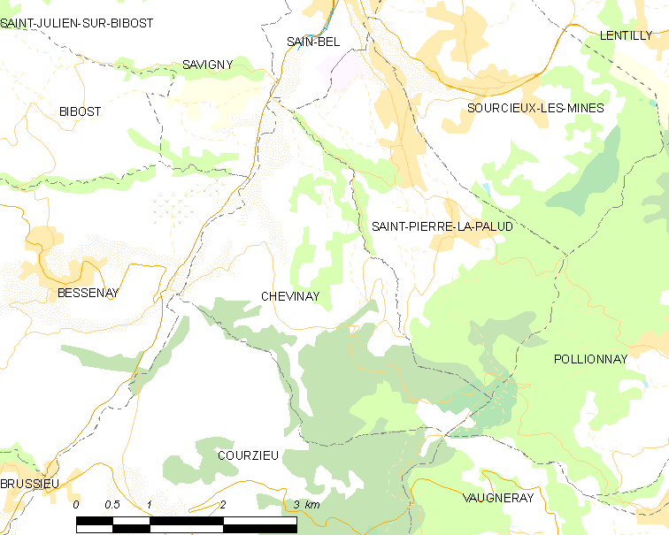 Map of French municipality